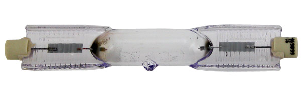 400 watt clip in style, high pressure fan tanning bulb. Generally used in tanning beds with a UVC filter in place.